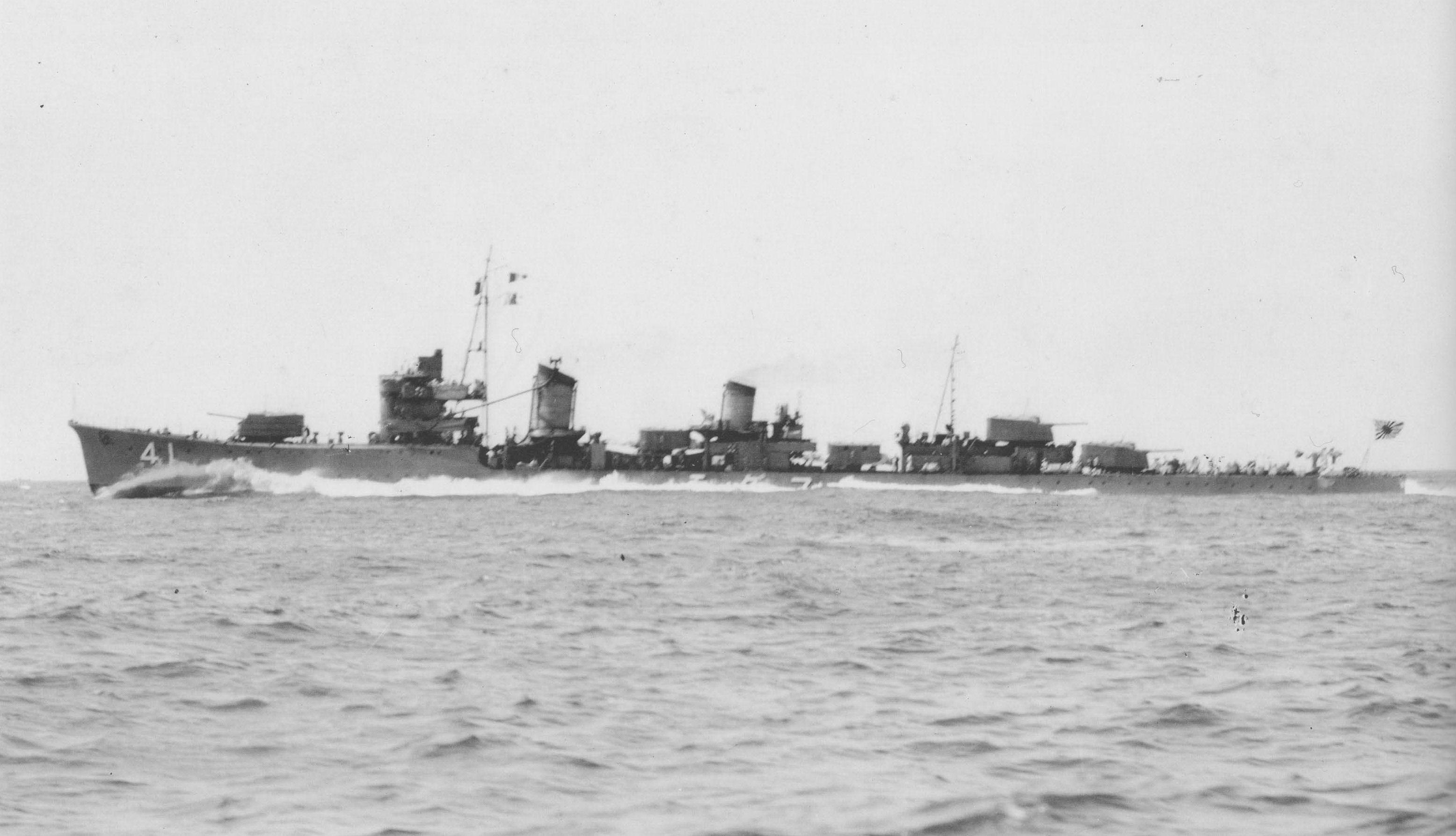 Imperial Japanese Navy destroyer Yamagumo